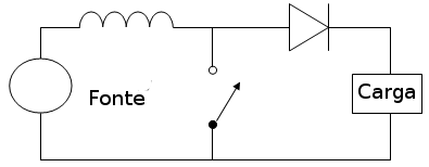 Boost circuit, a type of switched-mode power supply